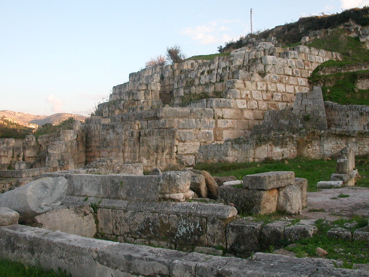 Echnoum 3